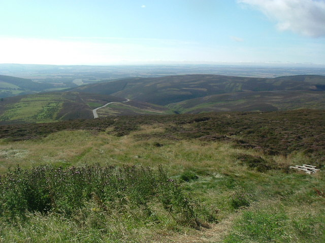 View south from the Cairn O'Mount (Cairn O'Mounth), Aberdeenshire